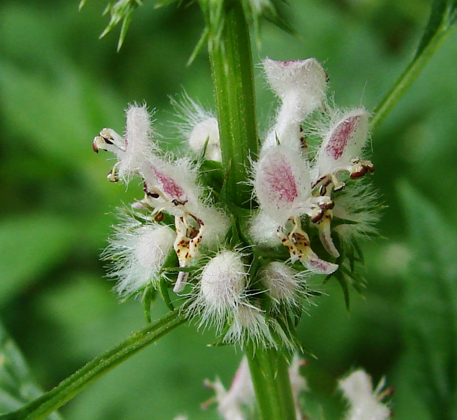 Motherwort, Lion's Tail, Leonurus cardiaca - Cross Plains, WI, USA